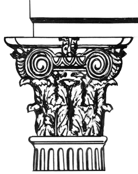 line art drawing of a composite.